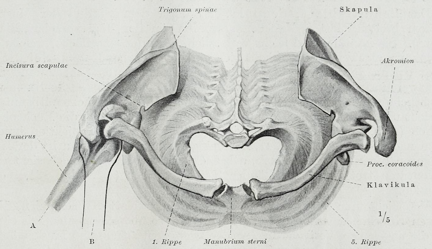 An anatomical illustration from the 1921 German edition of Anatomie des Menschen: ein Lehrbuch für Studierende und Ärzte with latin terminology.